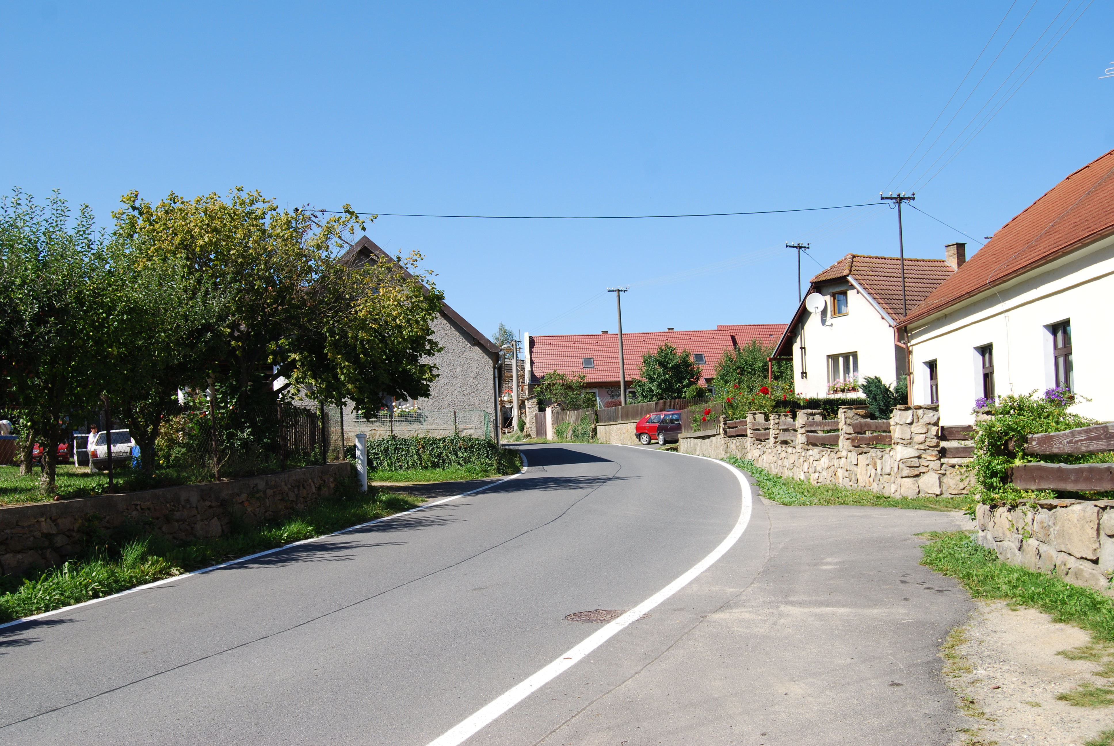 Olešná village in Písek District, Czech Republic. Street